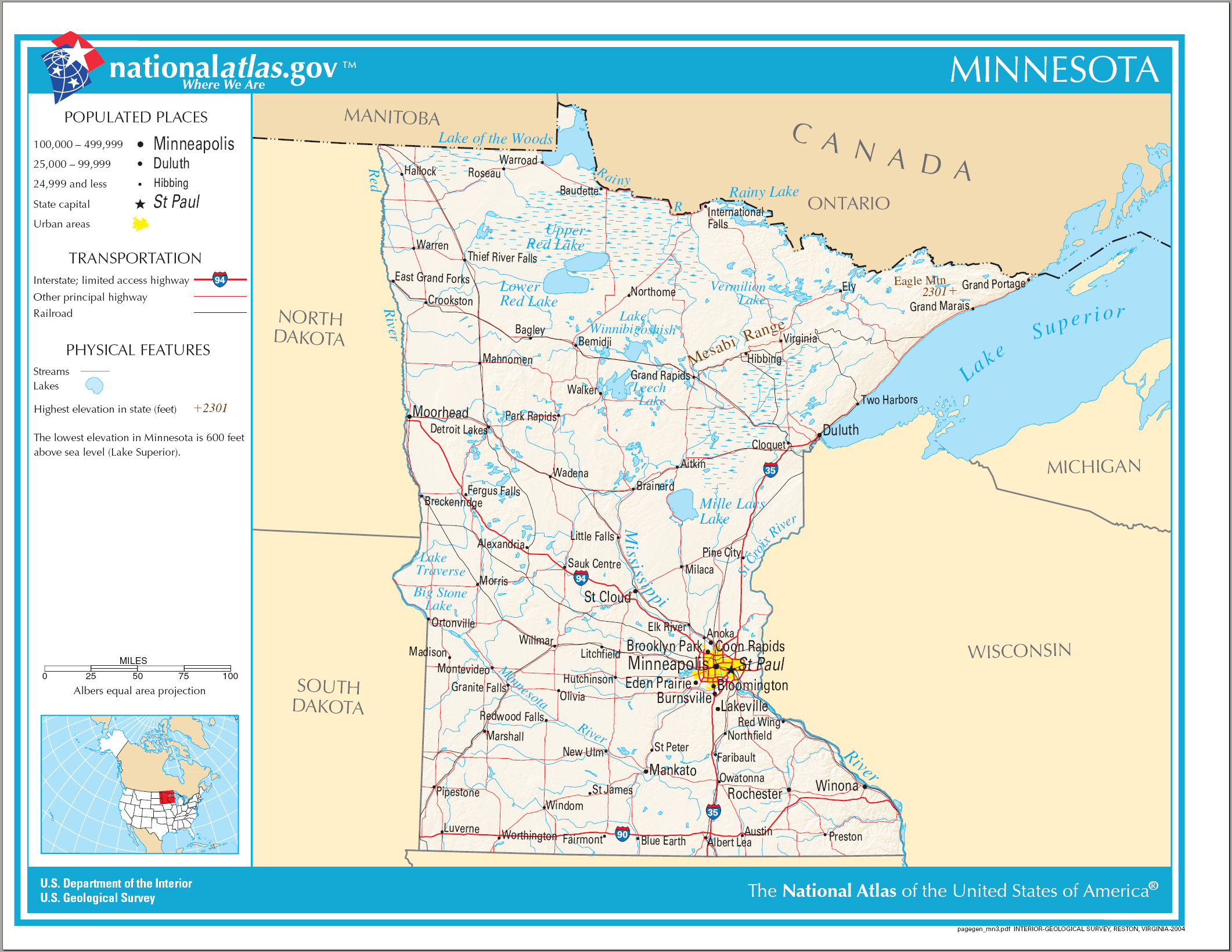 Map of Minnesota.